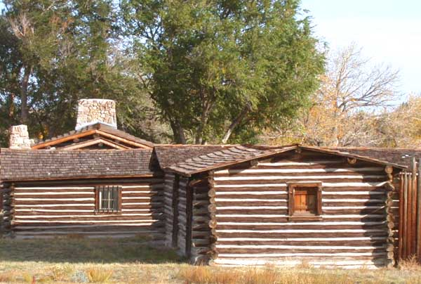 Reconstructed buildings at the site of Fort Caspar (now a museum) in Casper (taken Oct. 17, 2004) © 2004 Matthew Trump Category:Images of Wyoming